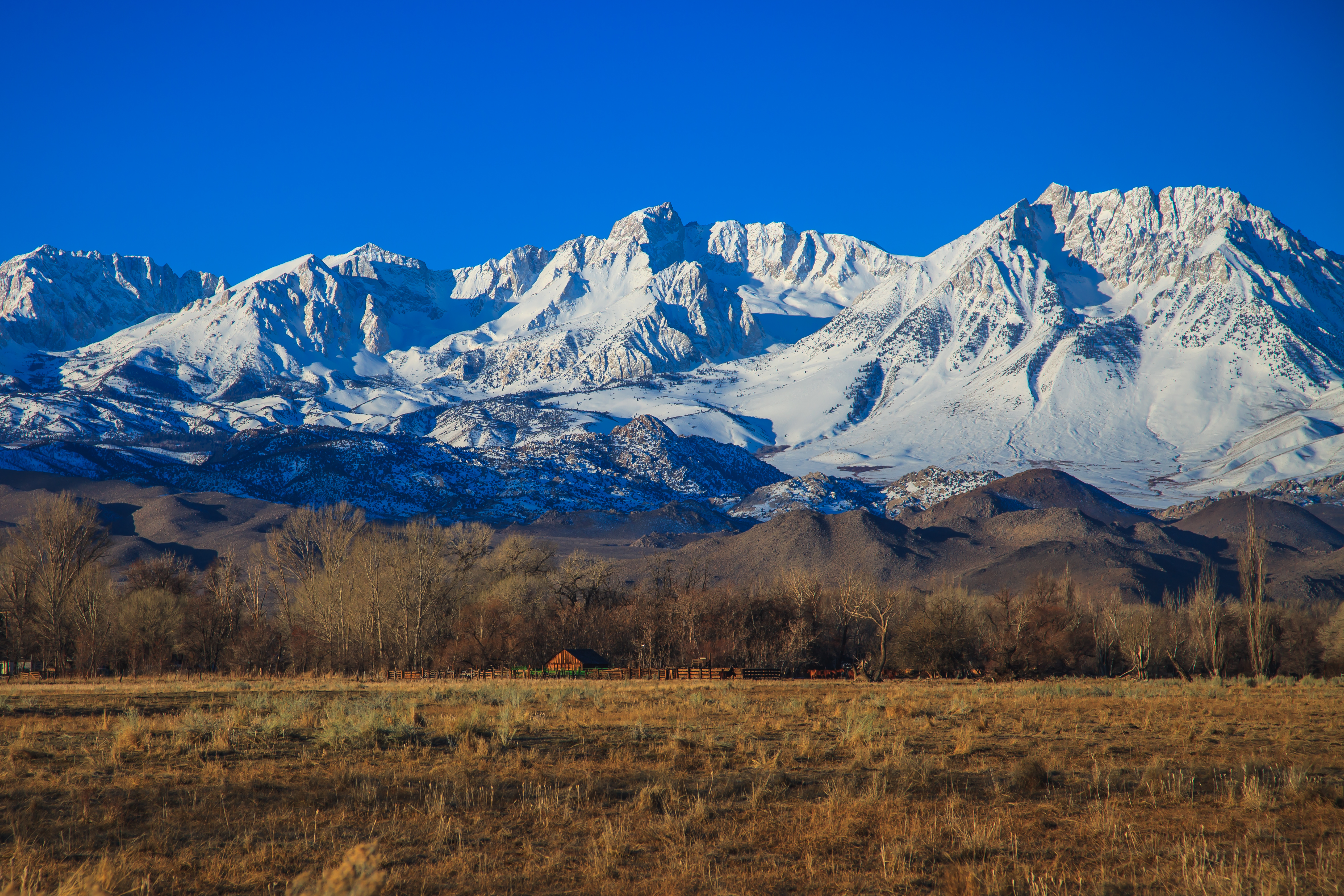 the Sierra crest from Bishop